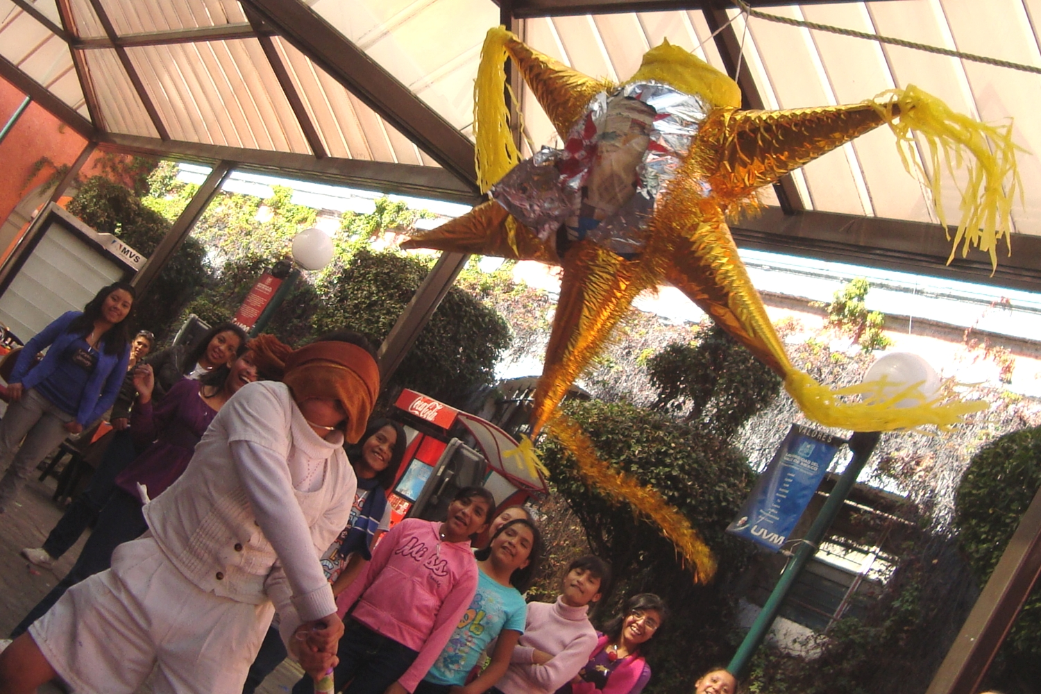 The girls observe another one smashing the piñata in a preposada at Mexico City